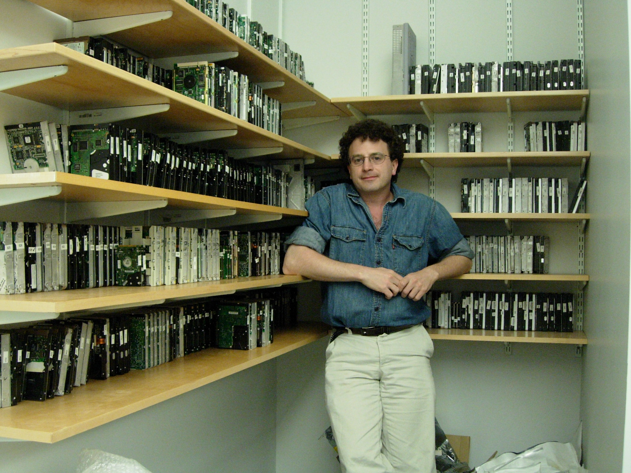 Simson Garfinkel with drives on shelves at Harvard University